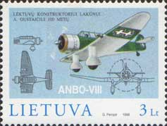 Lithuania post stamp. Antanas Gustaitis plane ANBO-VIII. Catalogue Mi 663